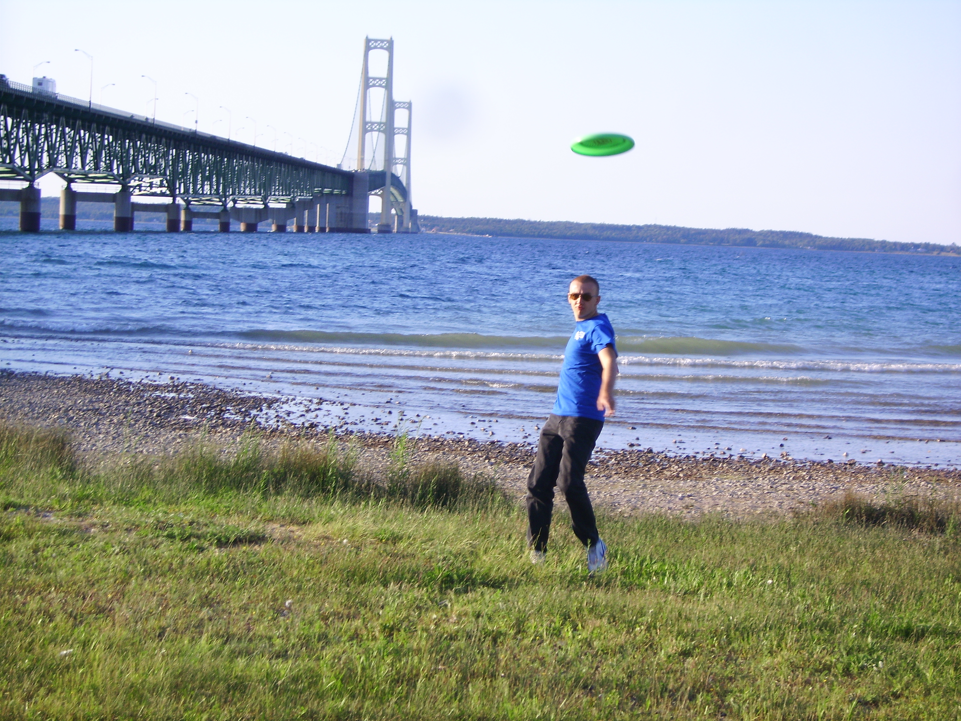 Frisbeer throwing a disc by the Mackinac Bridge